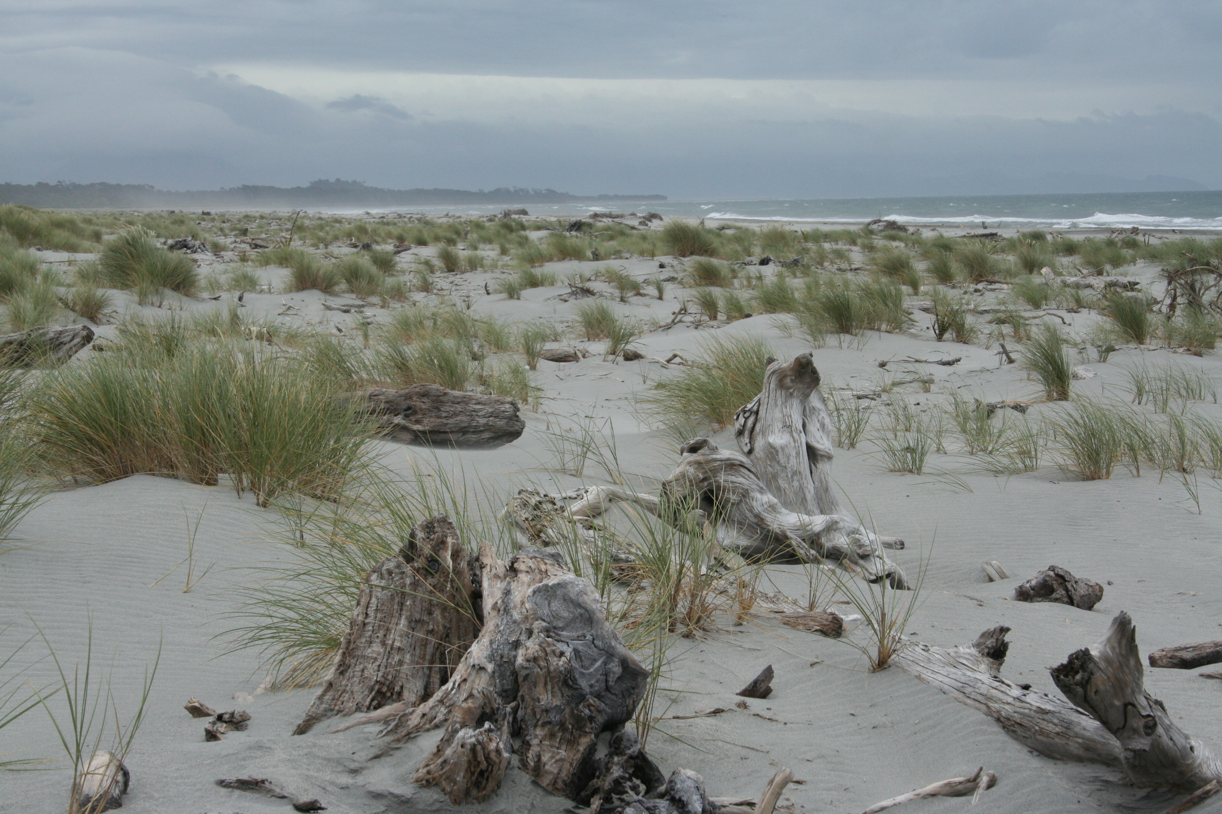 Beach of Haast, South Island, West Coast, New Zealand